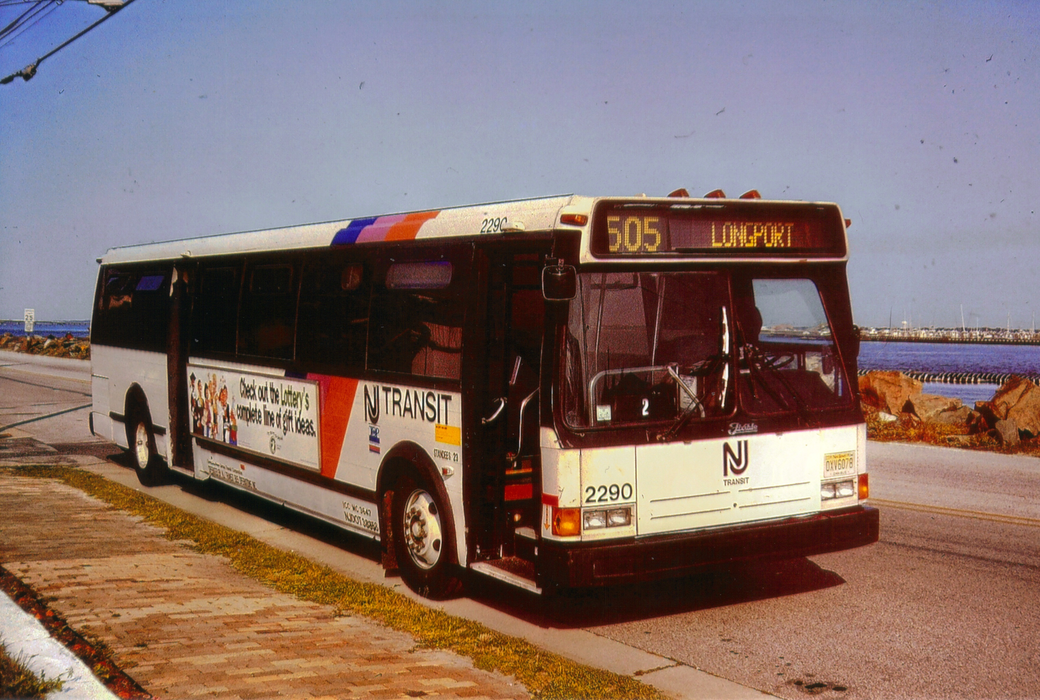 Grumman-Flxible 40102-6-1 "870" ex-NYCTA 340 Bruce Korusek Photo, purchased by me.